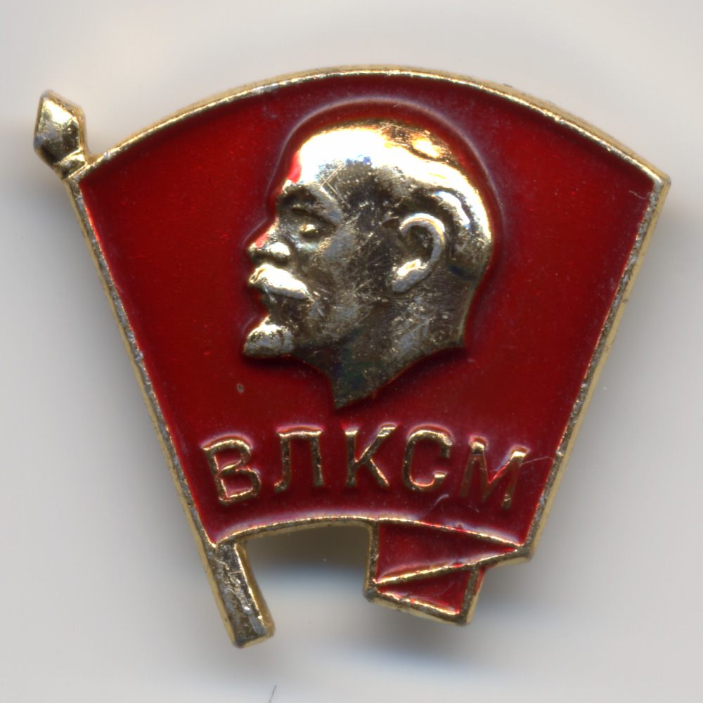 VLKSM (Komsomol) Member Pin. Ирон: Фæскомцæдисоны риуылдаргæ нысан.